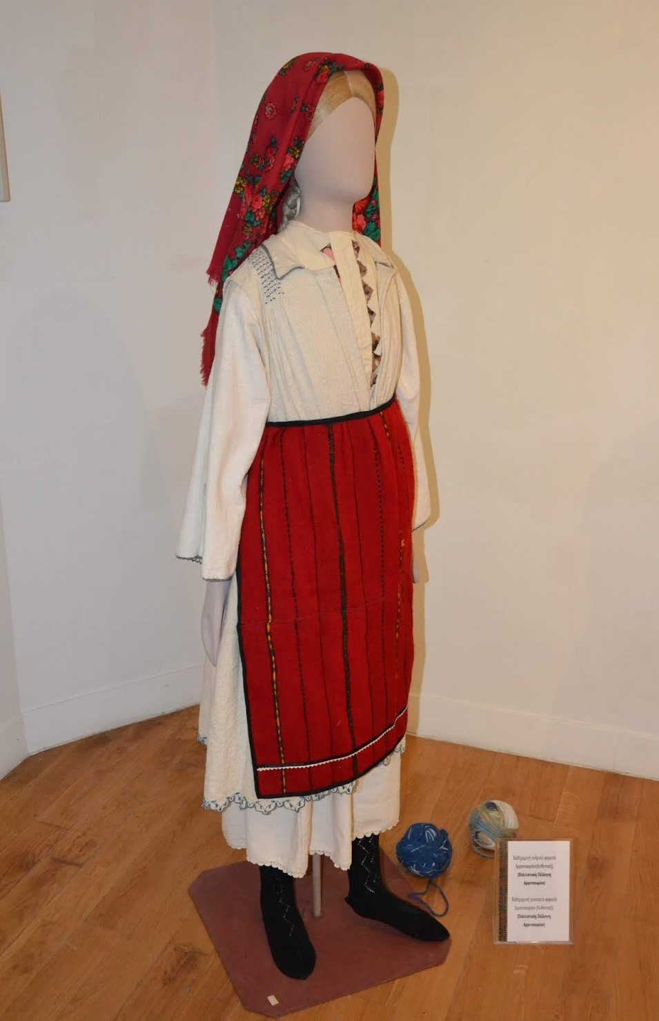 Dress from Armenohori, Florina (Moshtenski type)